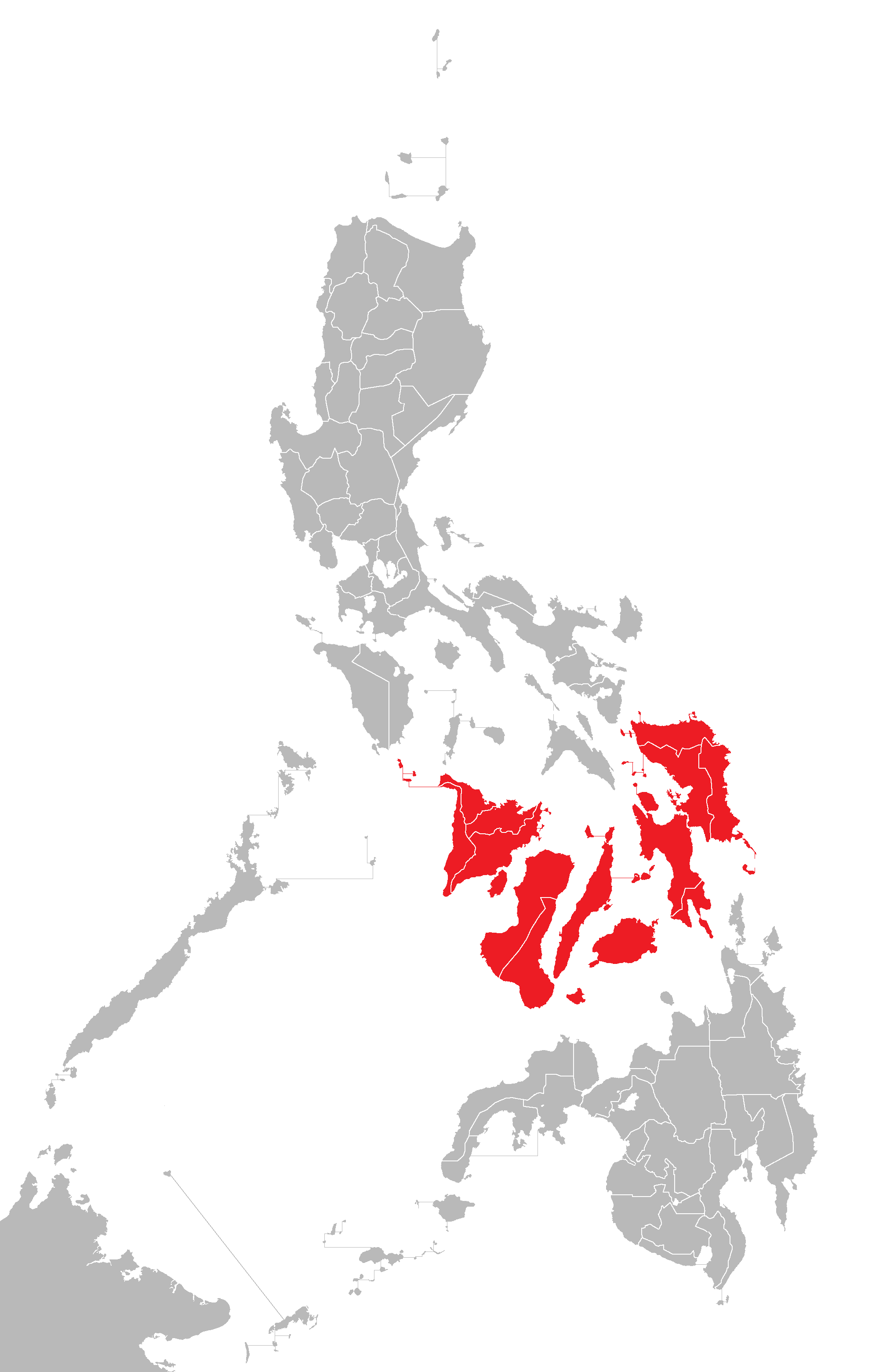 The Visaya Islands or Visayas in Red